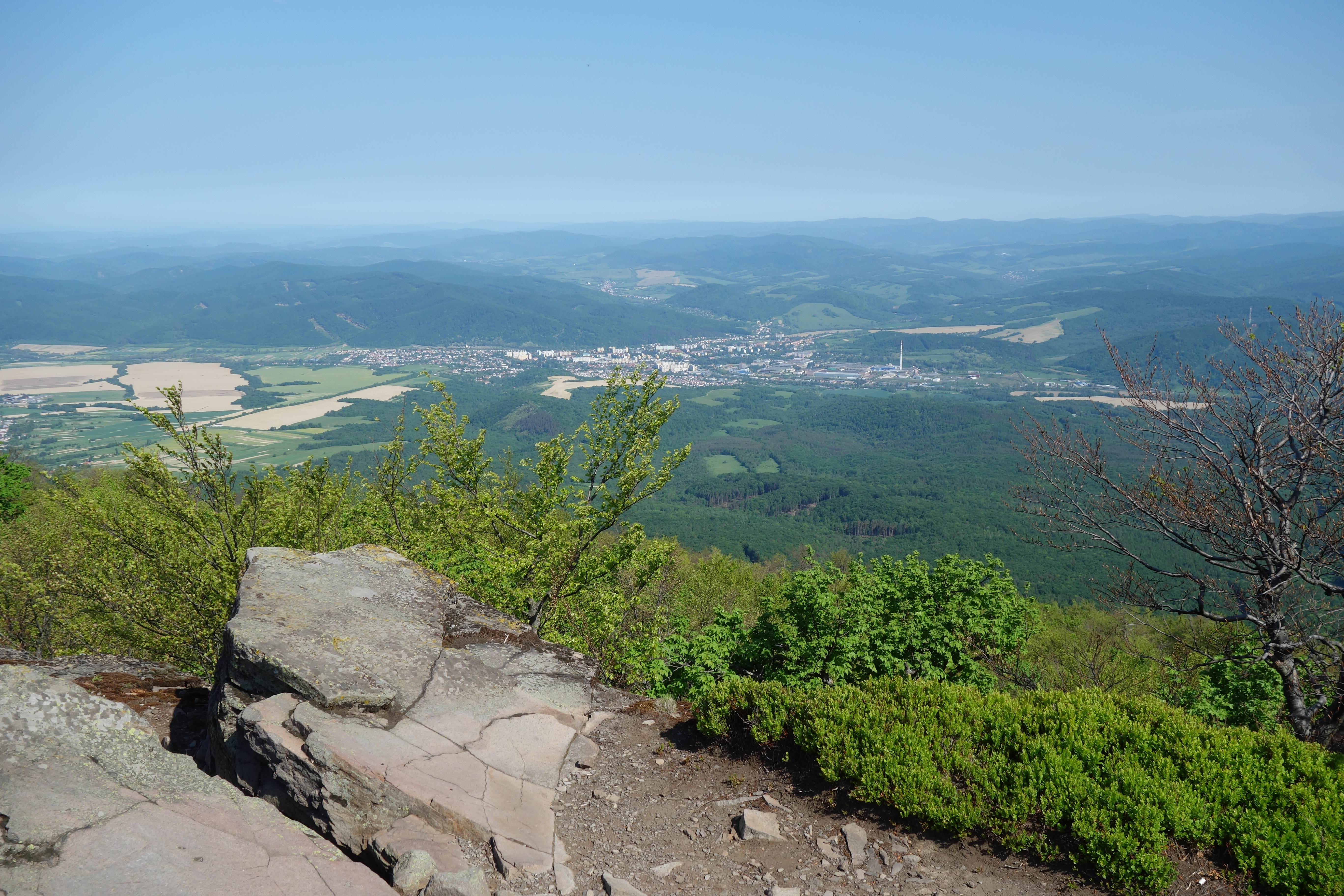 View from the top of Sninský kameň to the town Snina This is a photography of Natura 2000 protected area with ID SKUEV0209